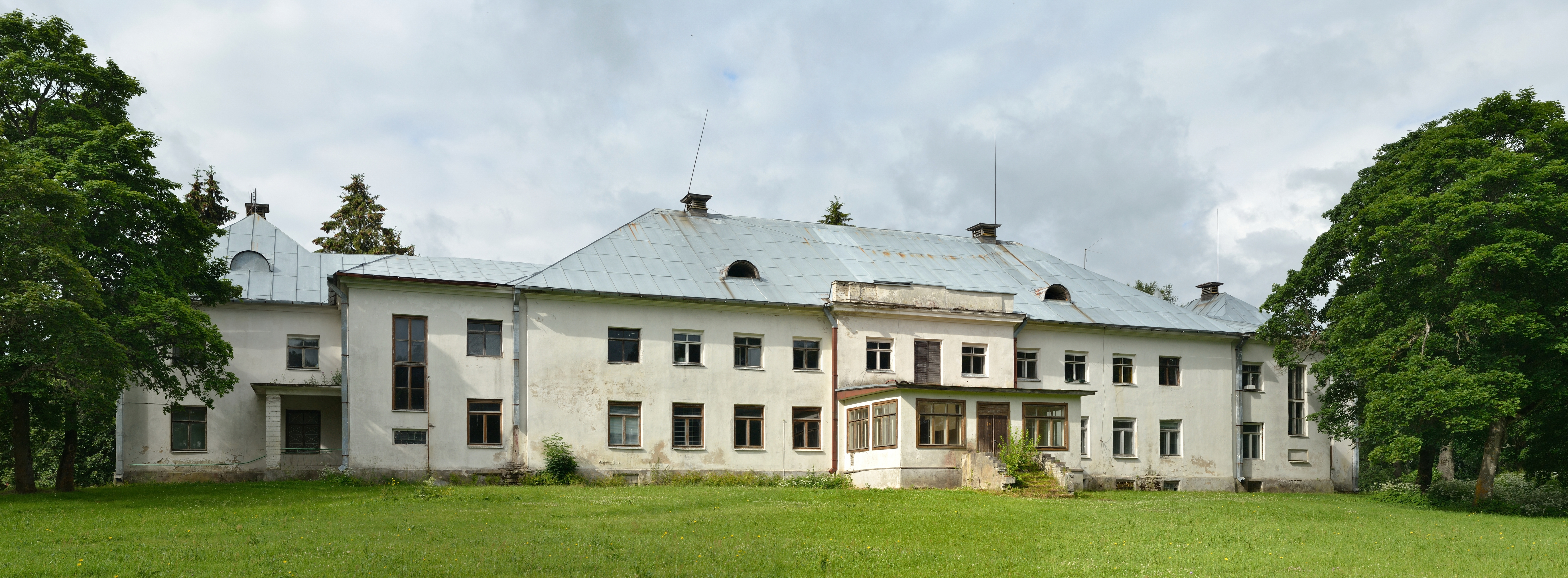 Valkla manor main building